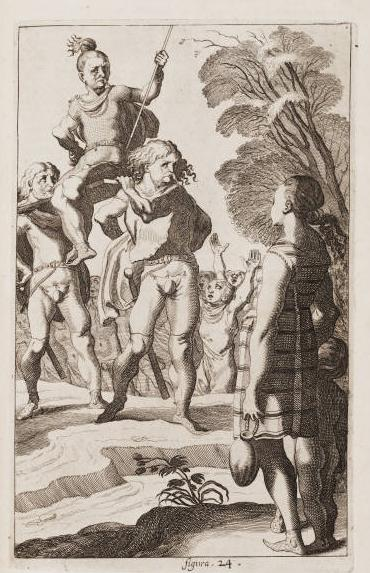 Plate 24 from Philip Clüver's Germania Antiqua (1616)